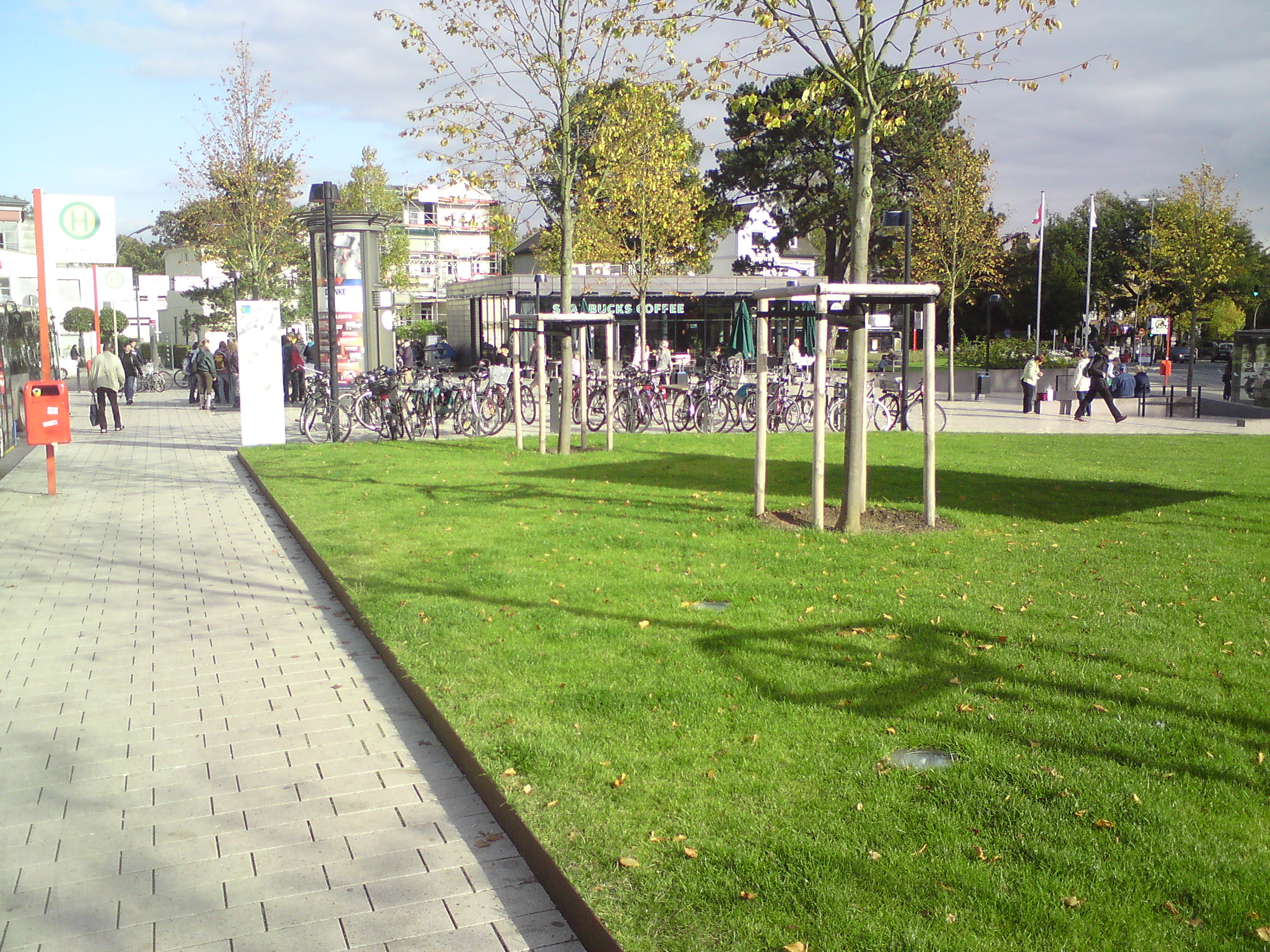 Erik-Blumenfeld-Platz in front of Blankenese railway station, Hamburg, Germany